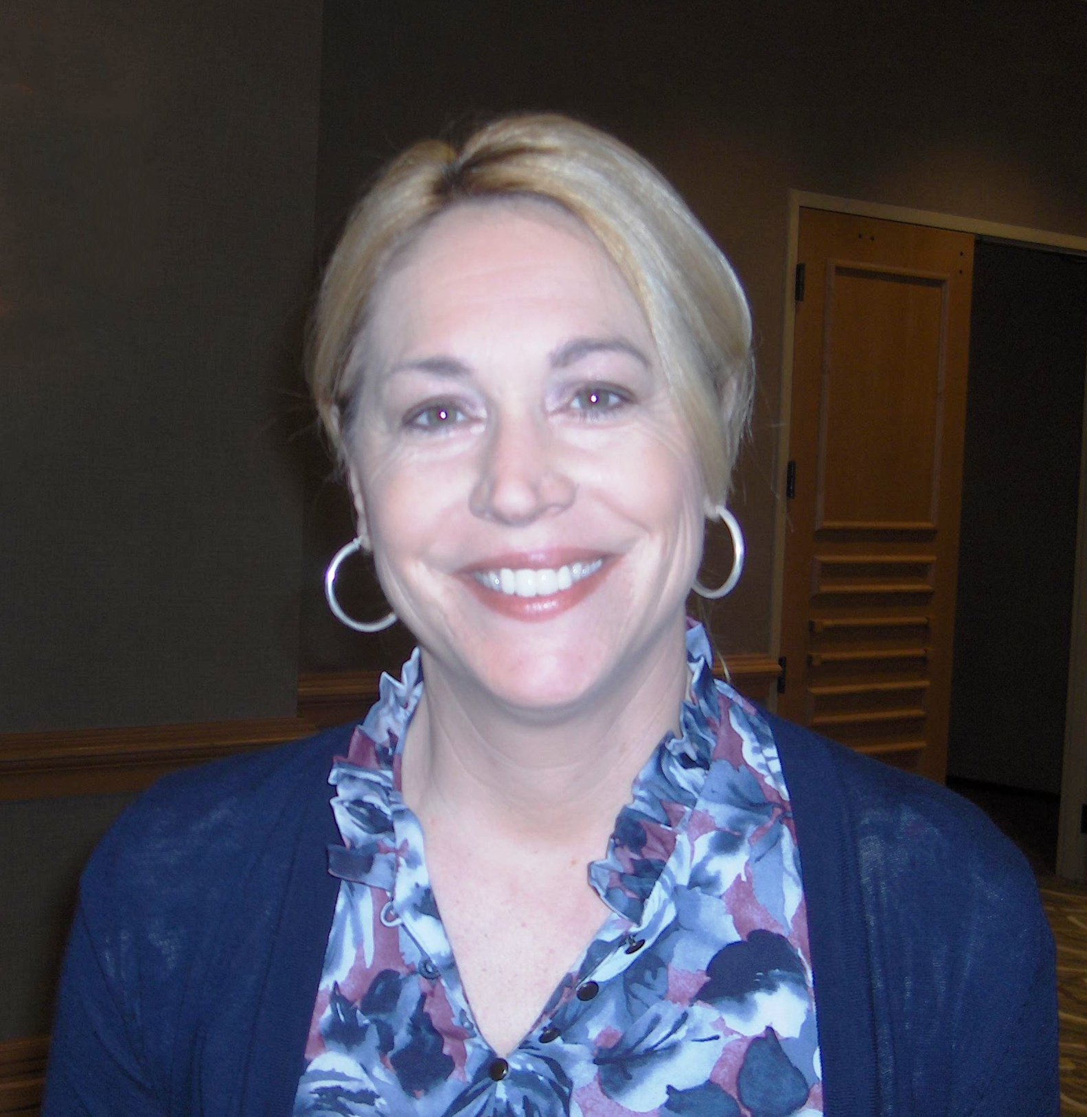 Photo of Doris Burke taken at the 2011 Women's basketball Coaches Association Convention in Indianapolis, Indiana.